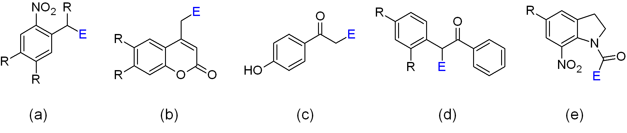 Caging groups